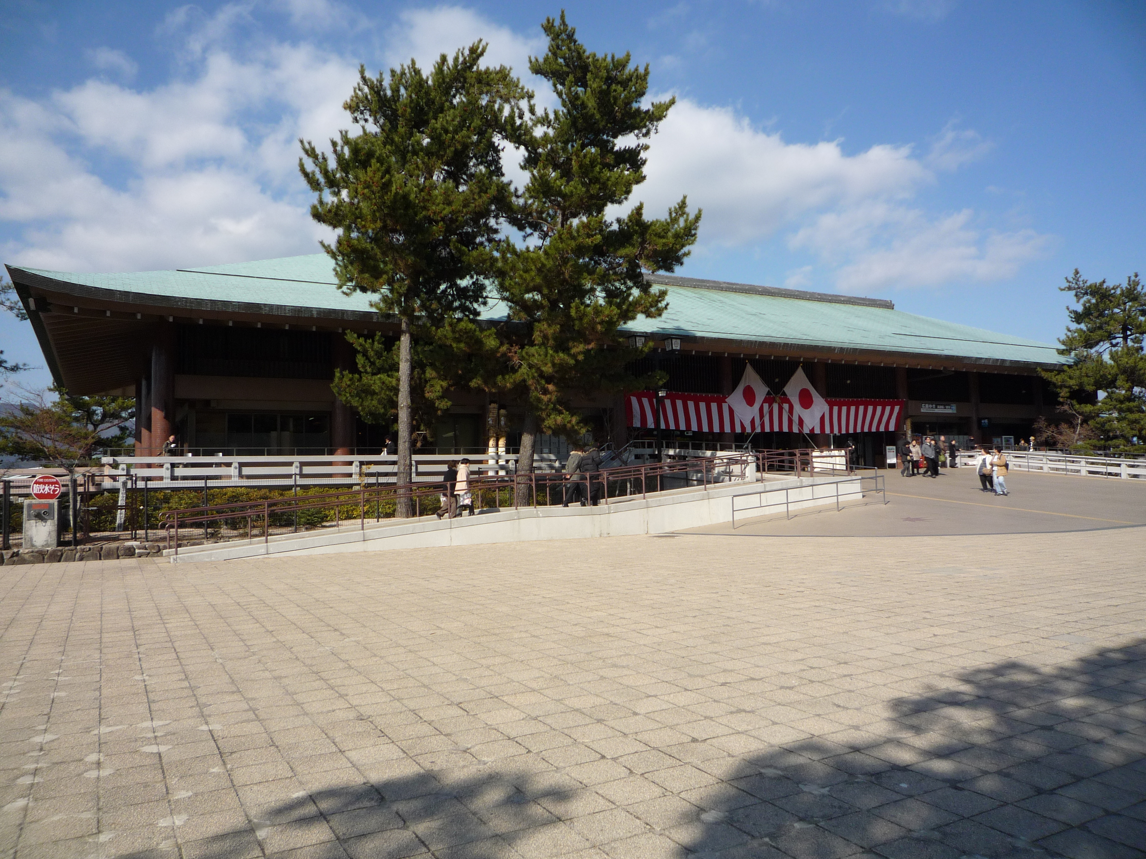 Miyajima Station of JR West Miyajima Ferry・Miyahima Pier of Miyajima matsudai kisen